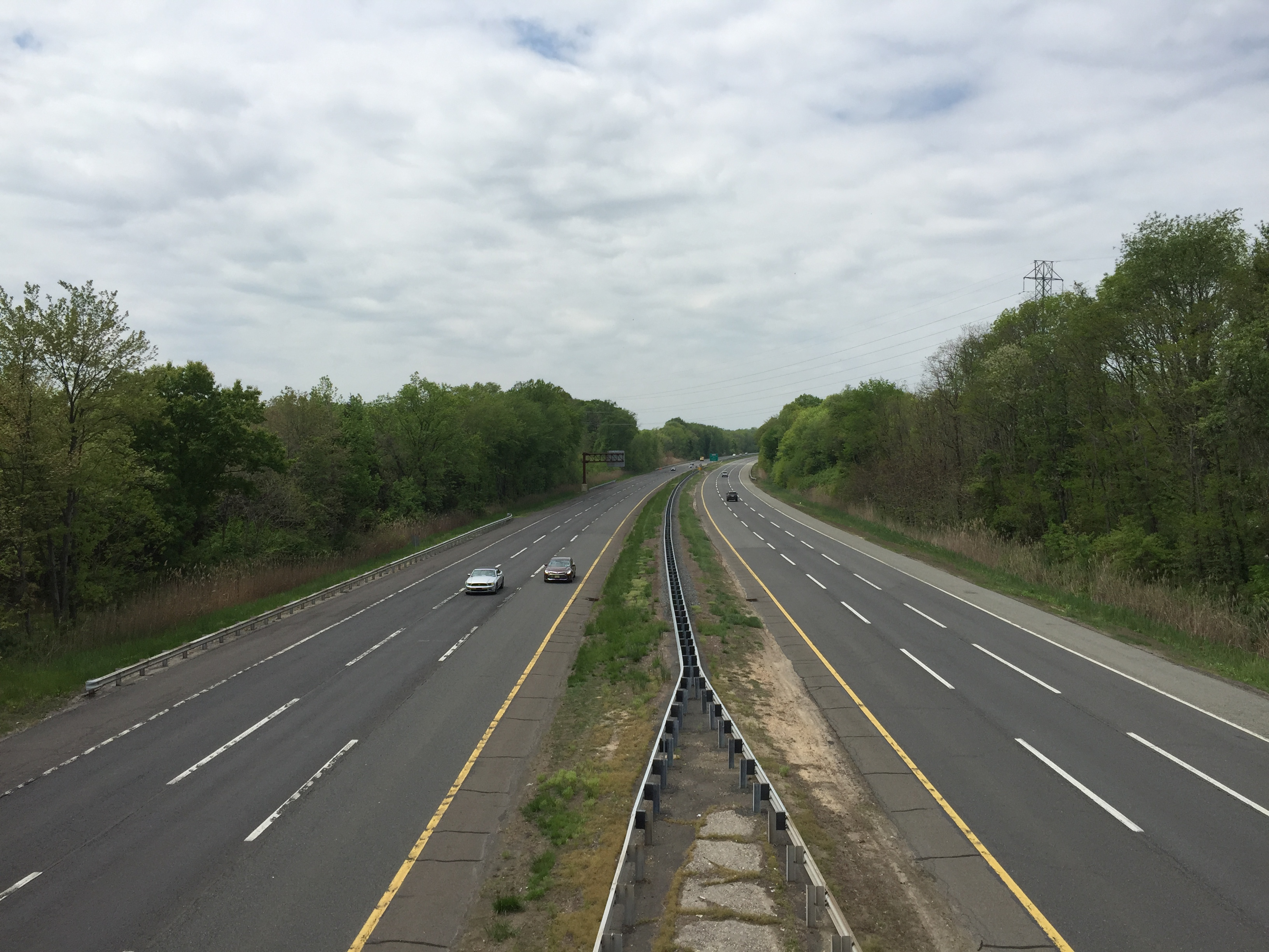 View south along the New Jersey Turnpike Pennsylvania Extension (Interstate 95) from the Interstate 295 (Camden Freeway) overpass in Mansfield Township, Burlington County, New Jersey